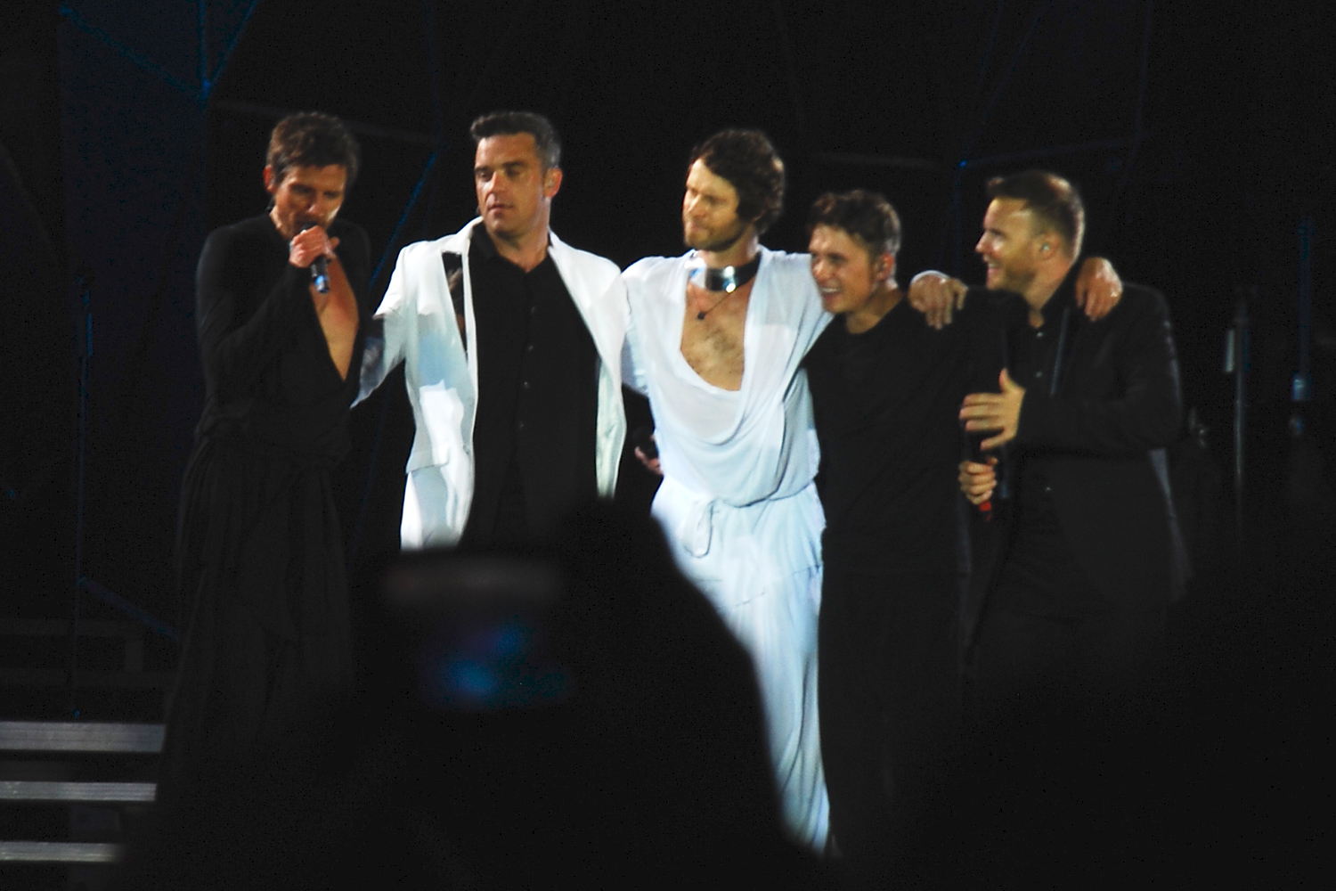 Take That & The Pet Shop Boys, Manchester 12 June 2011